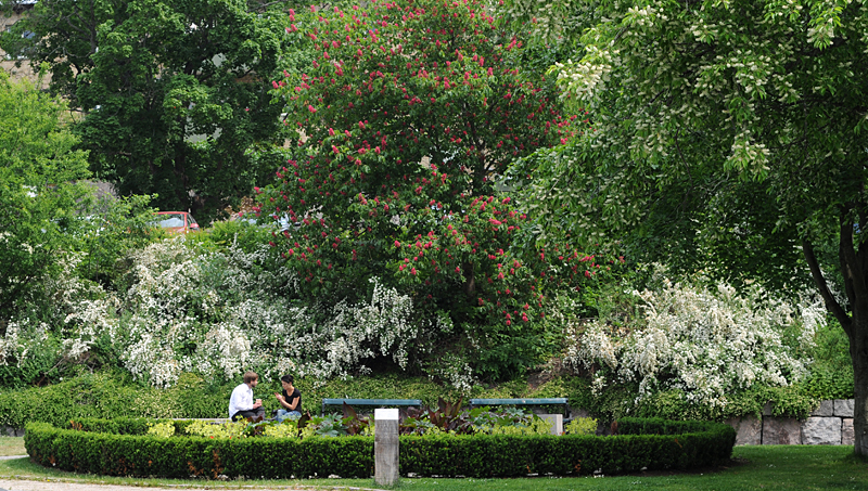 Anna Lindh's place in Nyköping